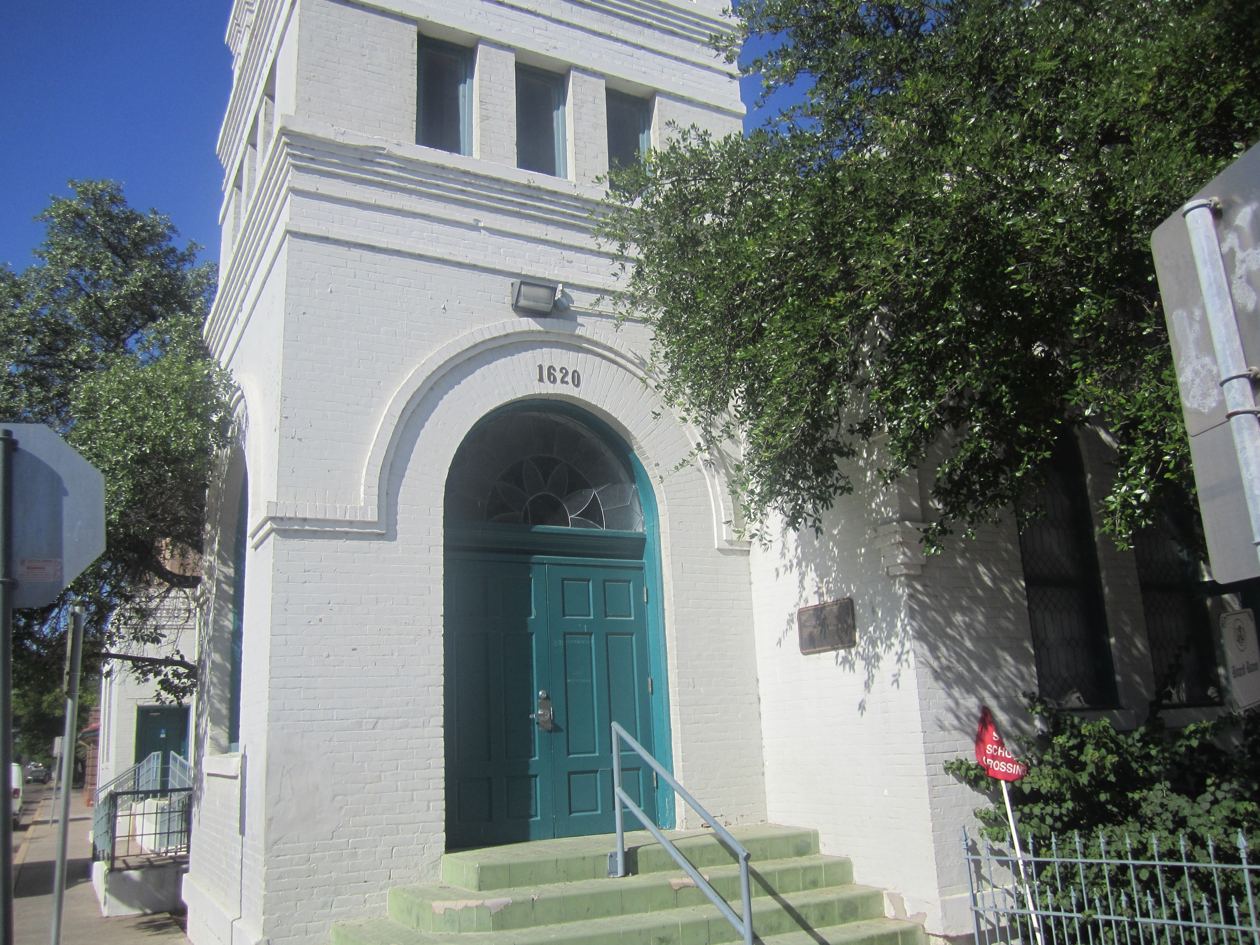 I took photo with Canon camera of Laredo Independent School District board room in Laredo, TX.